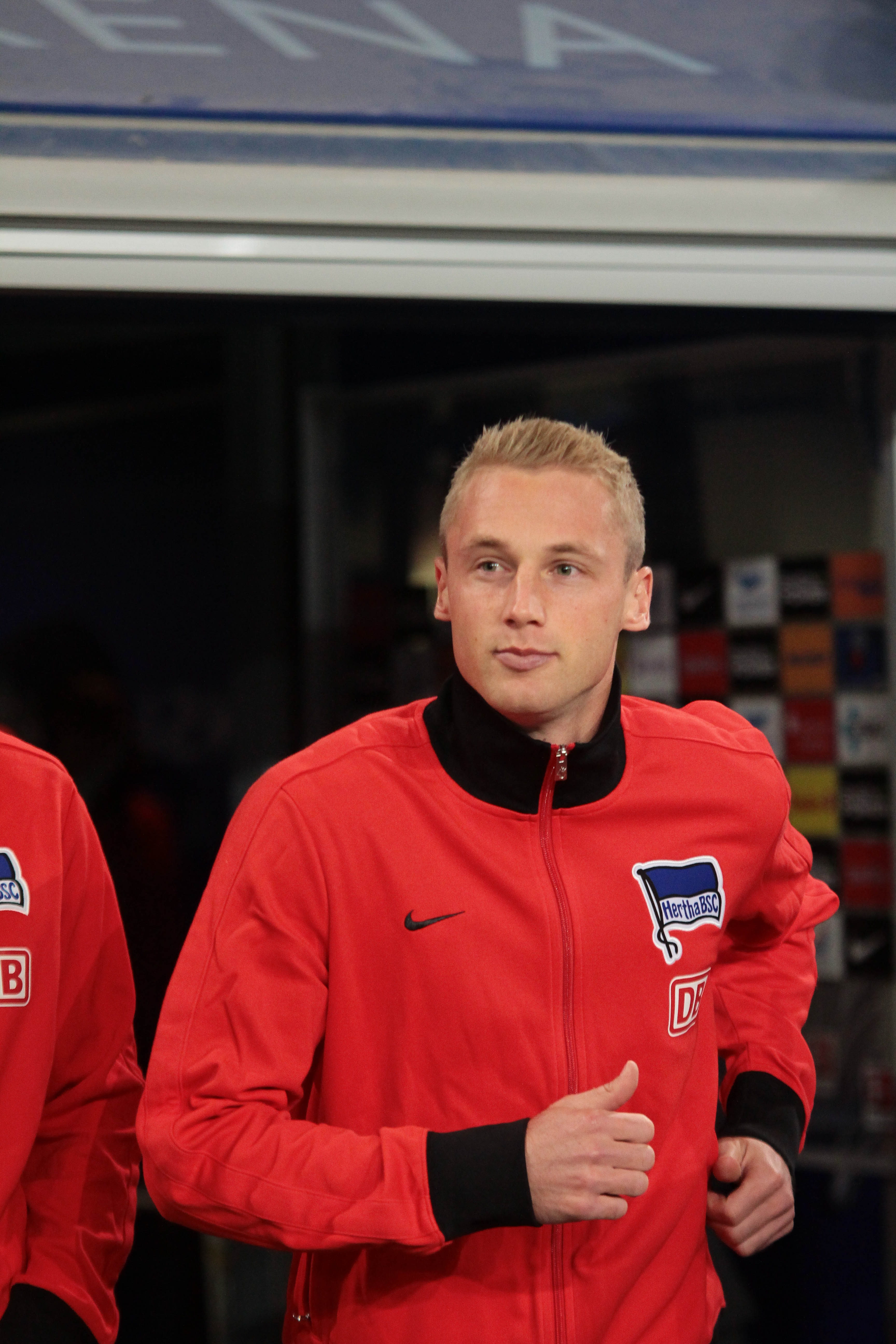 German footballer Felix Bastians, Hertha BSC